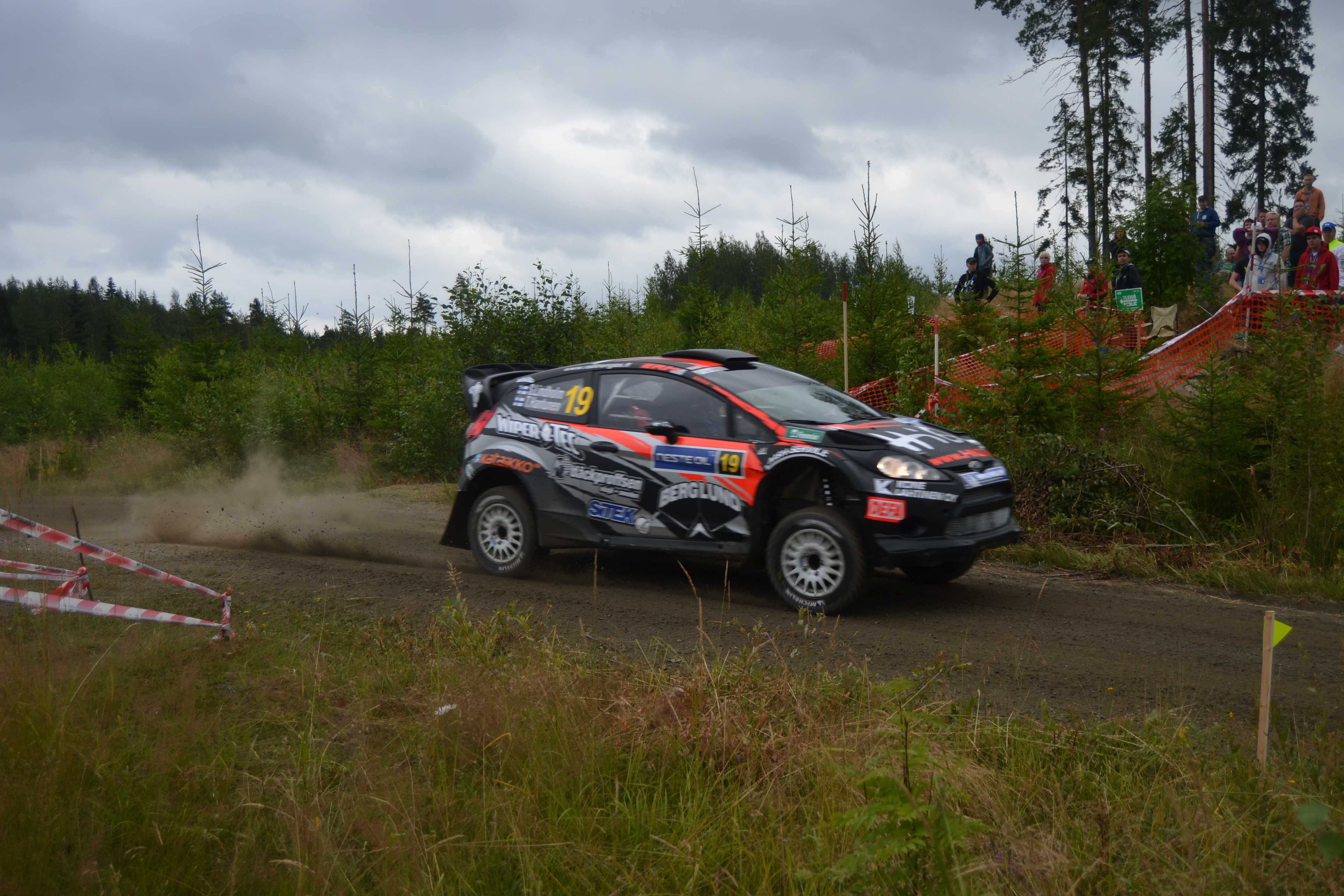 Sebastian Lindholm at 2nd Surkee stage at 2012 Rally Finland Unknown